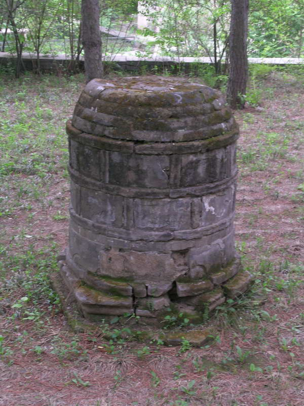 a type of pagoda in Tan Zhe Temple.